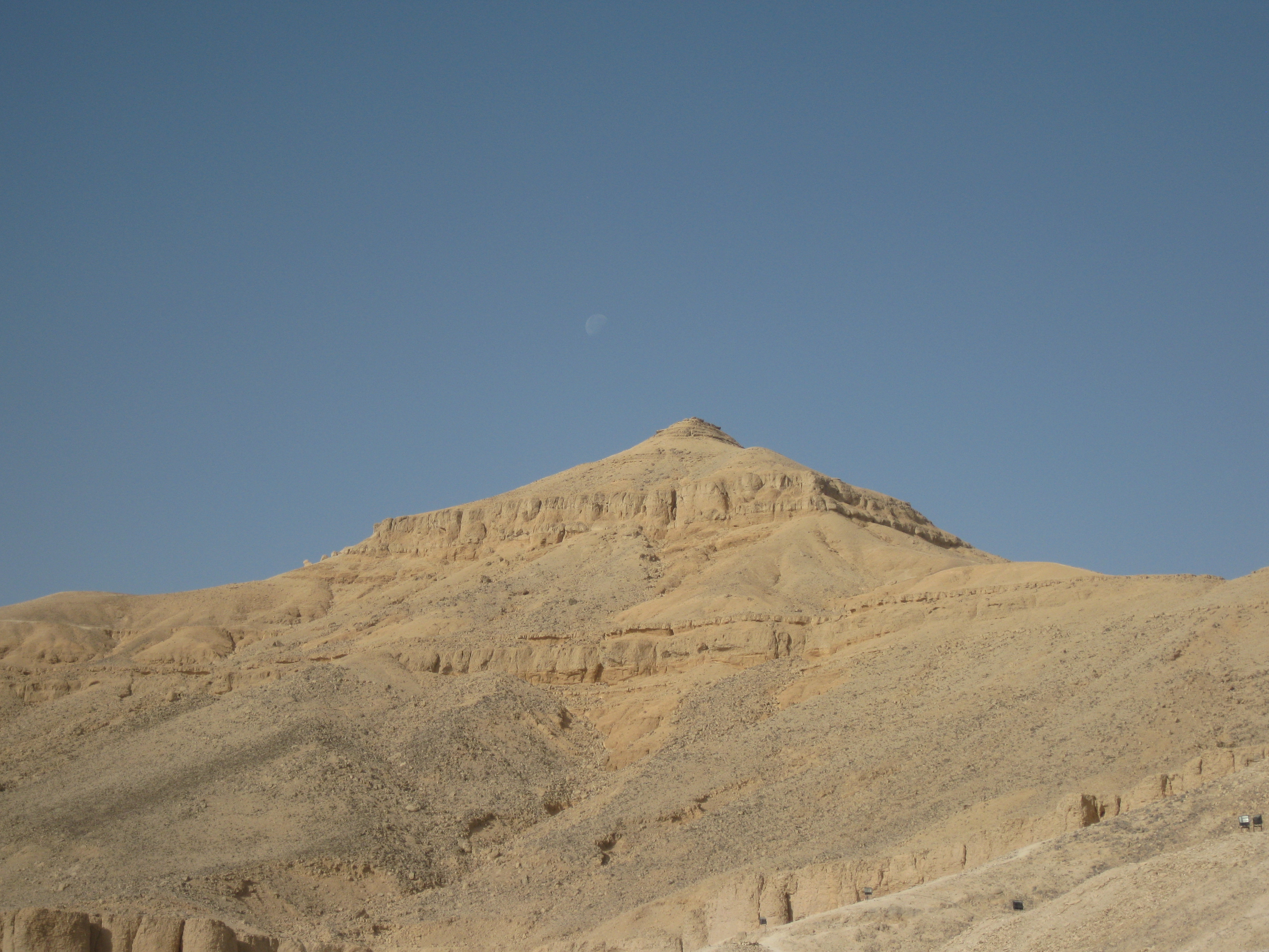 al-Qurn seen from the Valley of the Kings